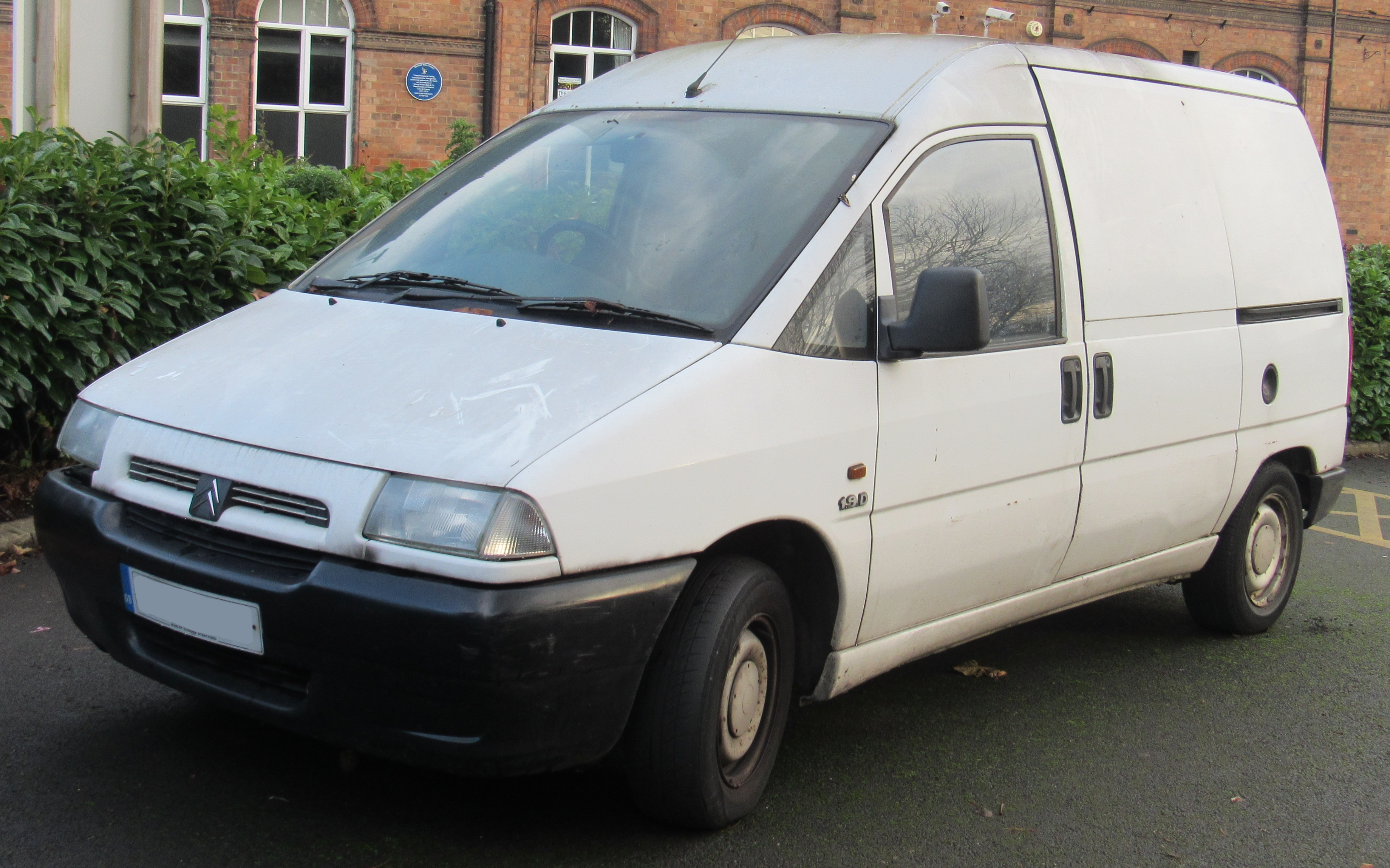 1998 Citroen Dispatch Diesel 1.9 Front Taken in Warwick